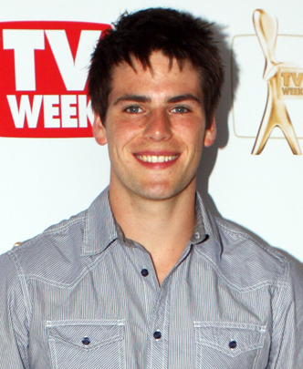 Australian actor James Mason at the TV Week Logie Nominations In Sydney, Australia